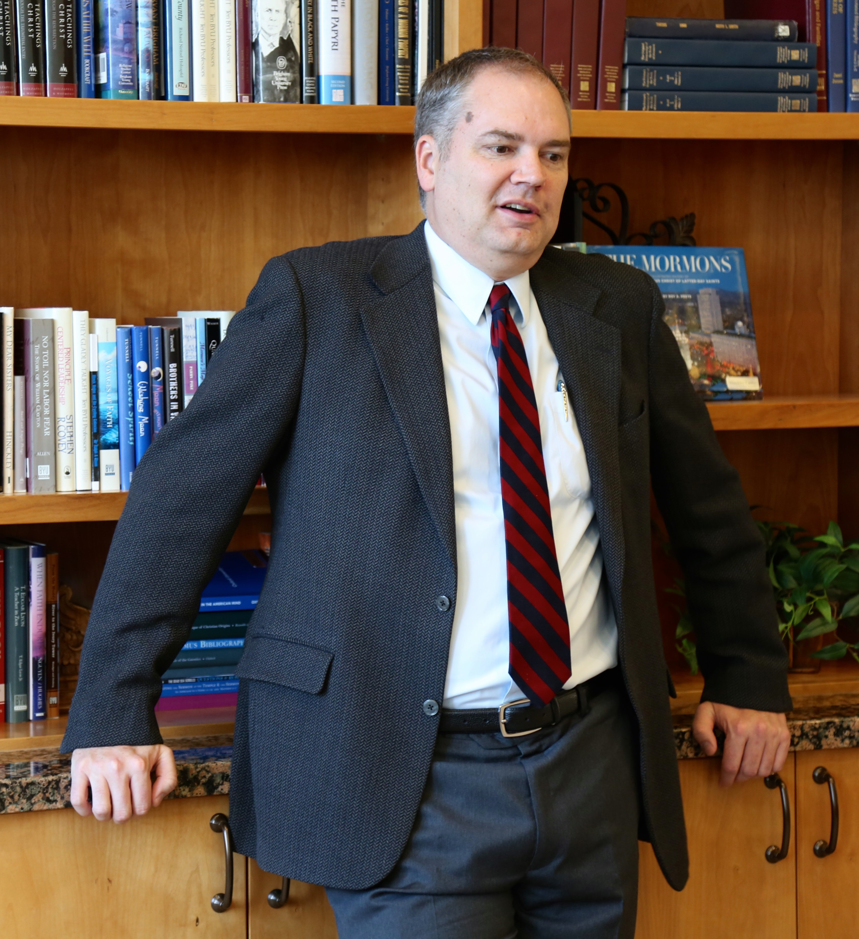 Brigham Young University political scientist Quin Monson while being interviewed by Voice of America.